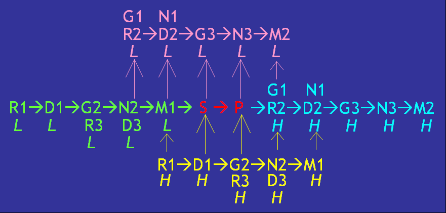 22 Shruti-Mandal (Organogram) (Carnatic)